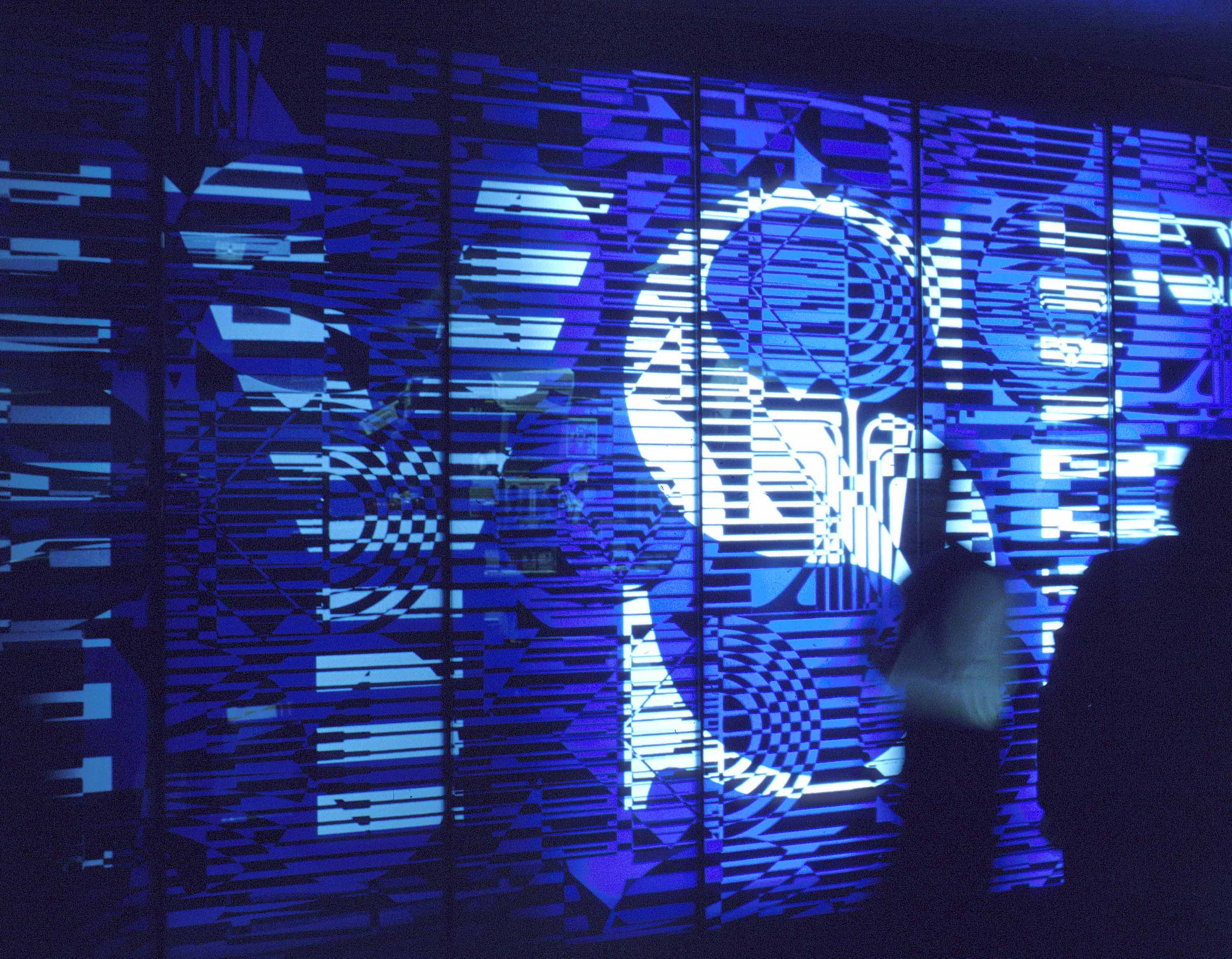 New York Stock Exchange Advanced Trading Floor, New York, NY 2001. Courtesy of Asymptote Architecture. Photography: Eduard Hueber, courtesy of Asymptote Architecture.